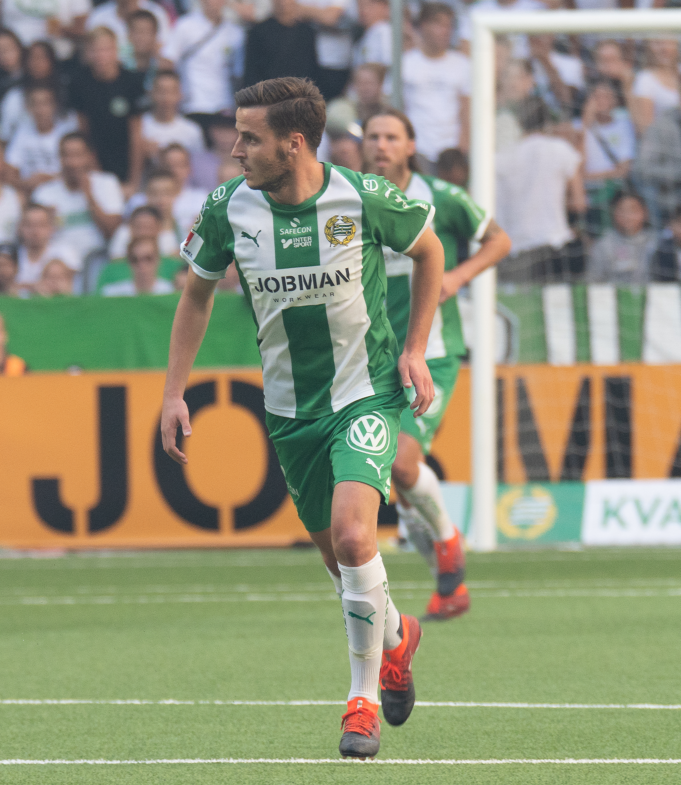 Hammarby IF - Djurgården IF 2018-09-03